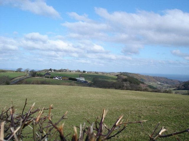 Mynydd Llanelian. High in the hills near Mynydd Llanelian looking down over the hamlet of Bryn-y-maen towards the North Wales coast